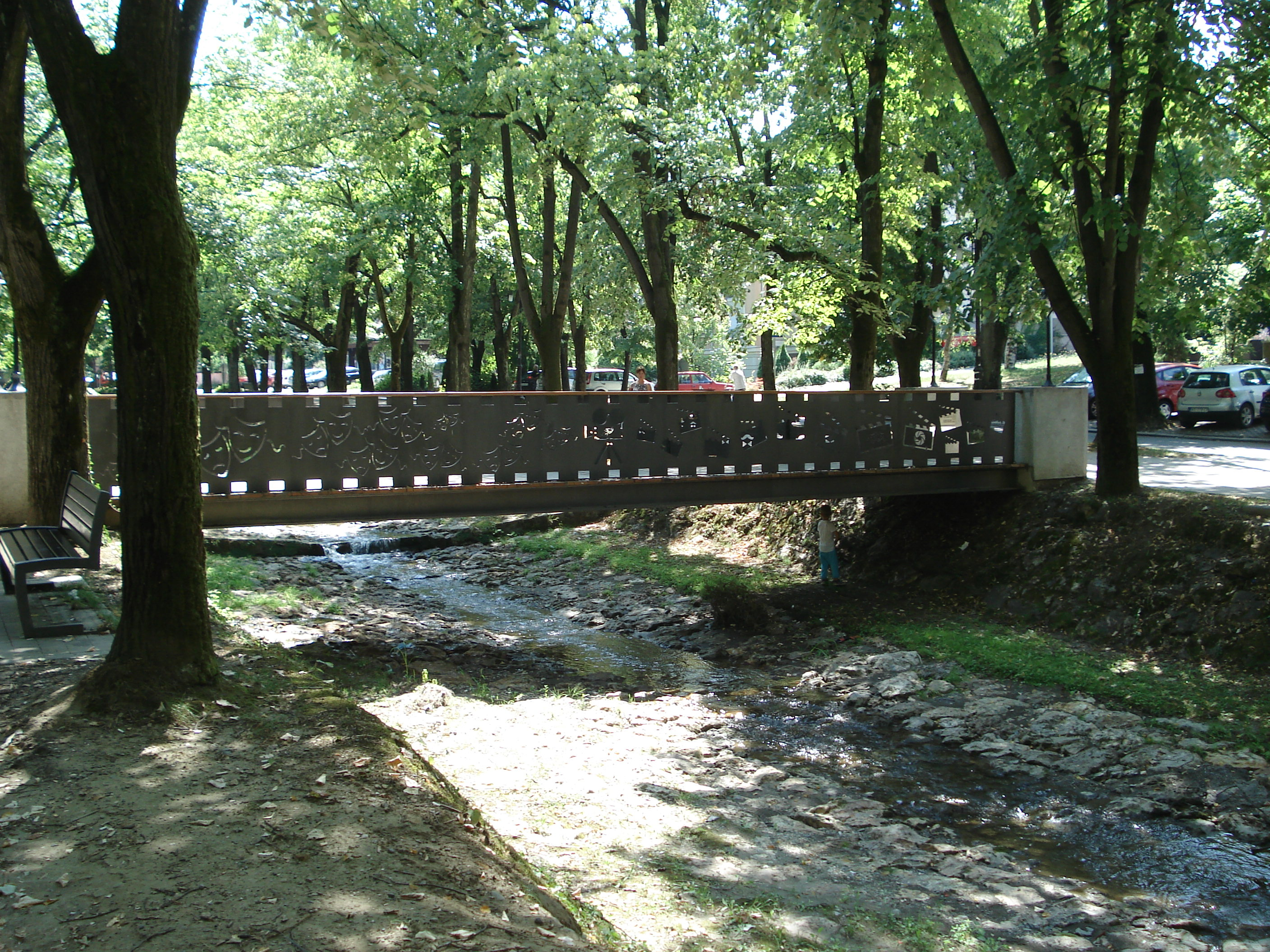 Filmski most „Ko to tamo peva” u Vrnjačkoj Banji 002